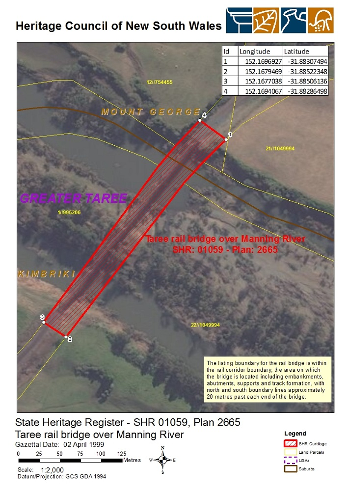 Manning River railway bridge, Taree: SHR Plan No 2665